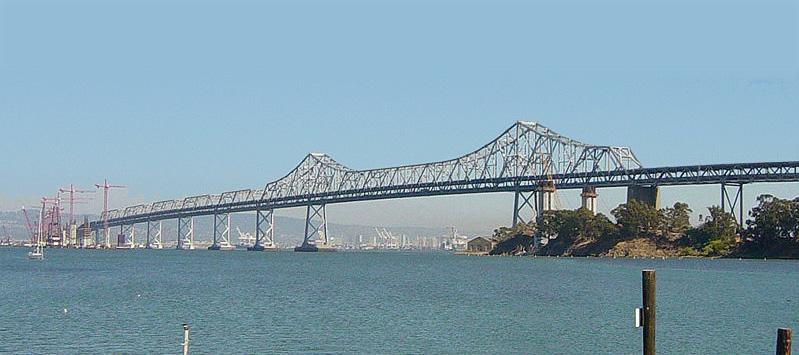 Extended sky with digital edit for matching with other pictures File:EasternSFO_OAKBrFromTI.jpg